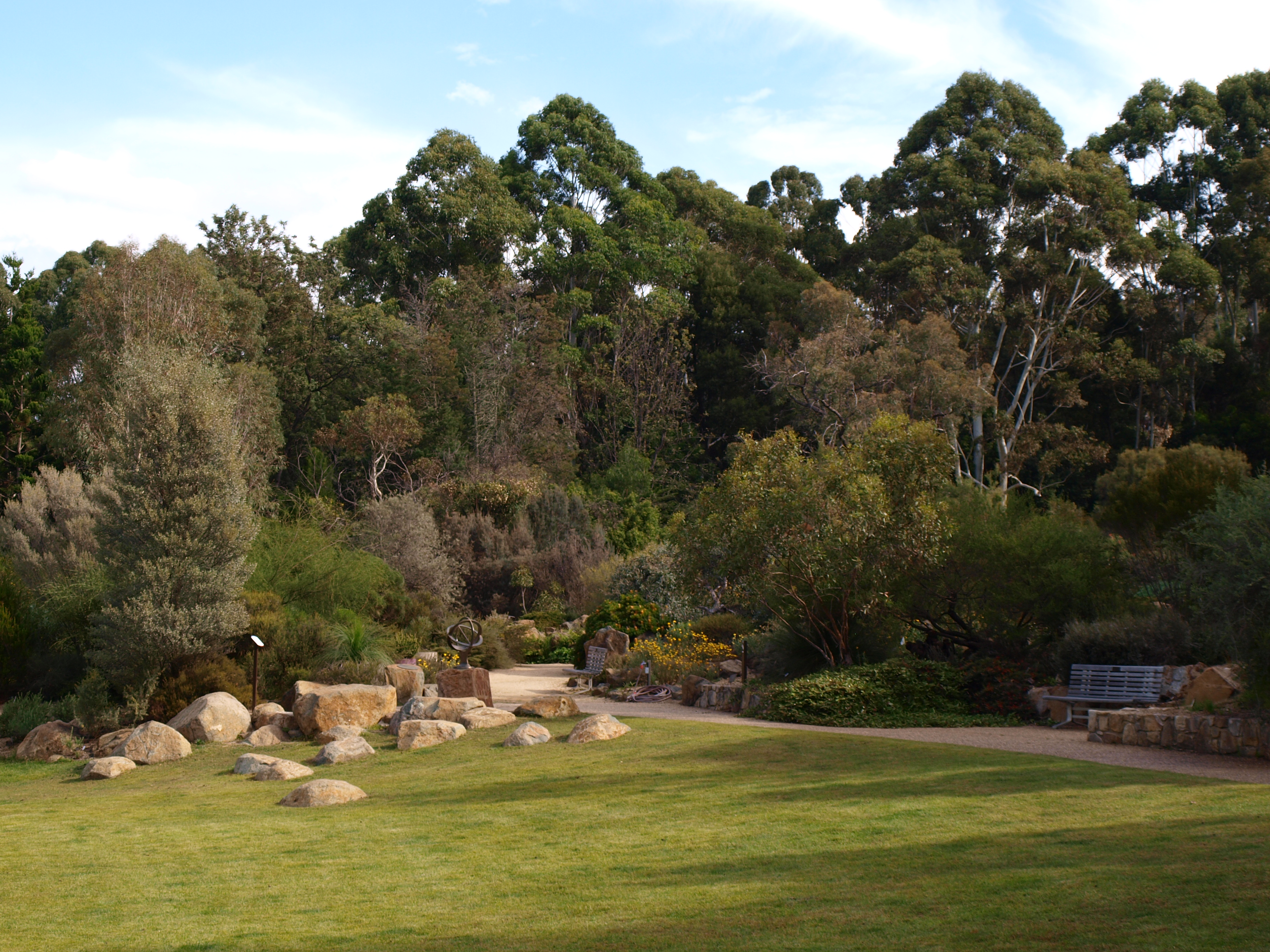 Australian National Botanic Gardens